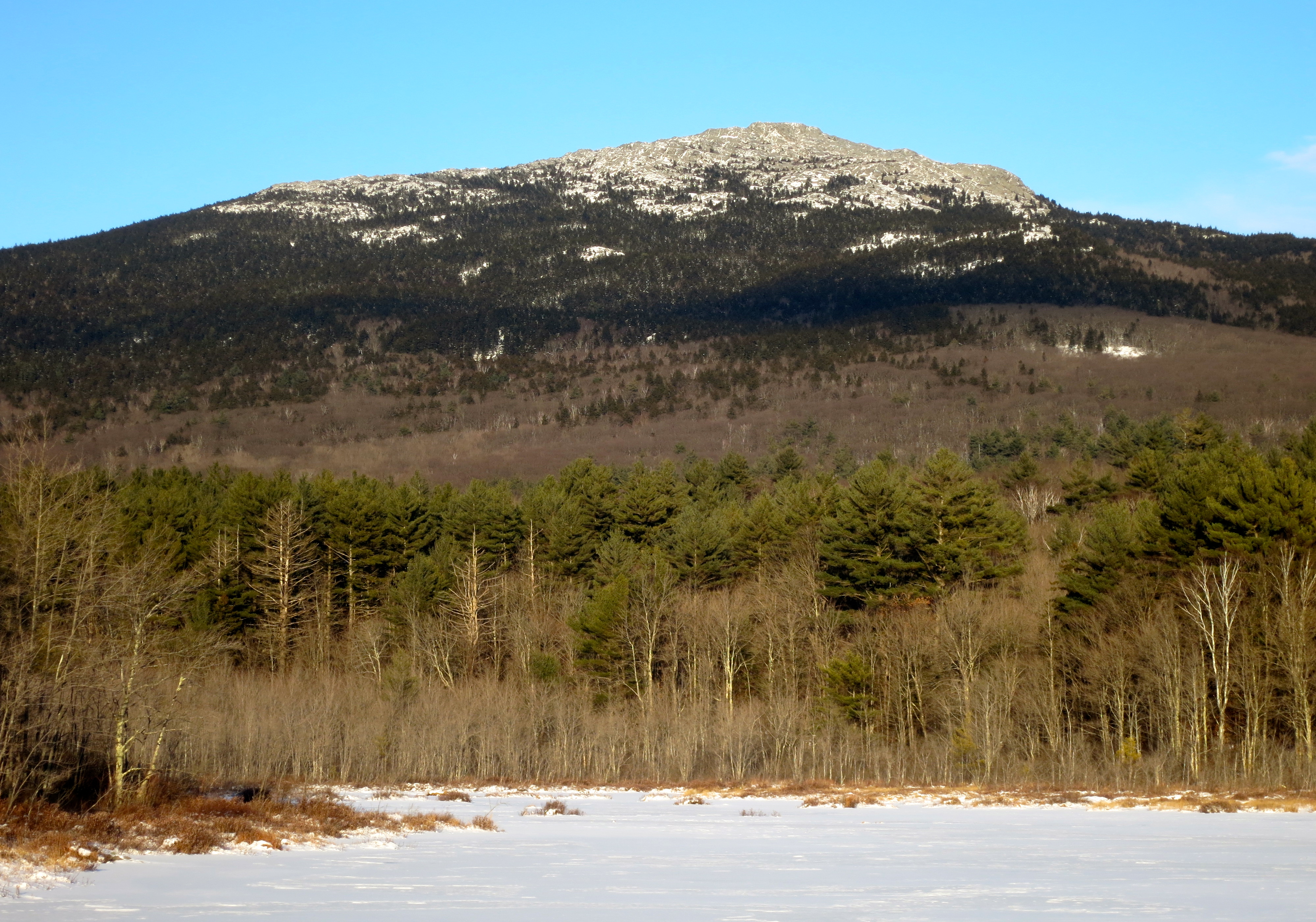 Portraint from Perkins Pond